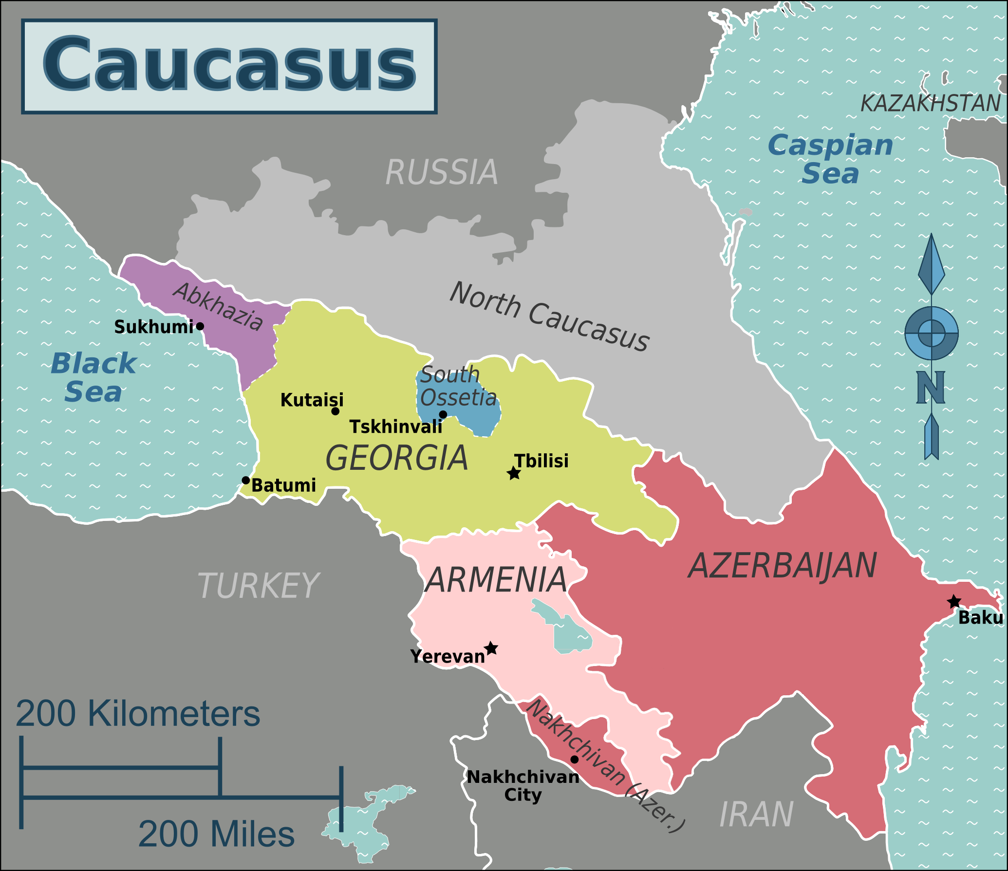 Caucasus regions map for use on Wikivoyage, English version